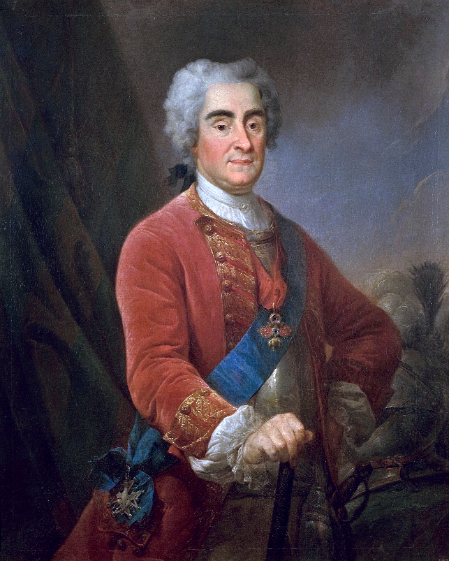 August II the Strong